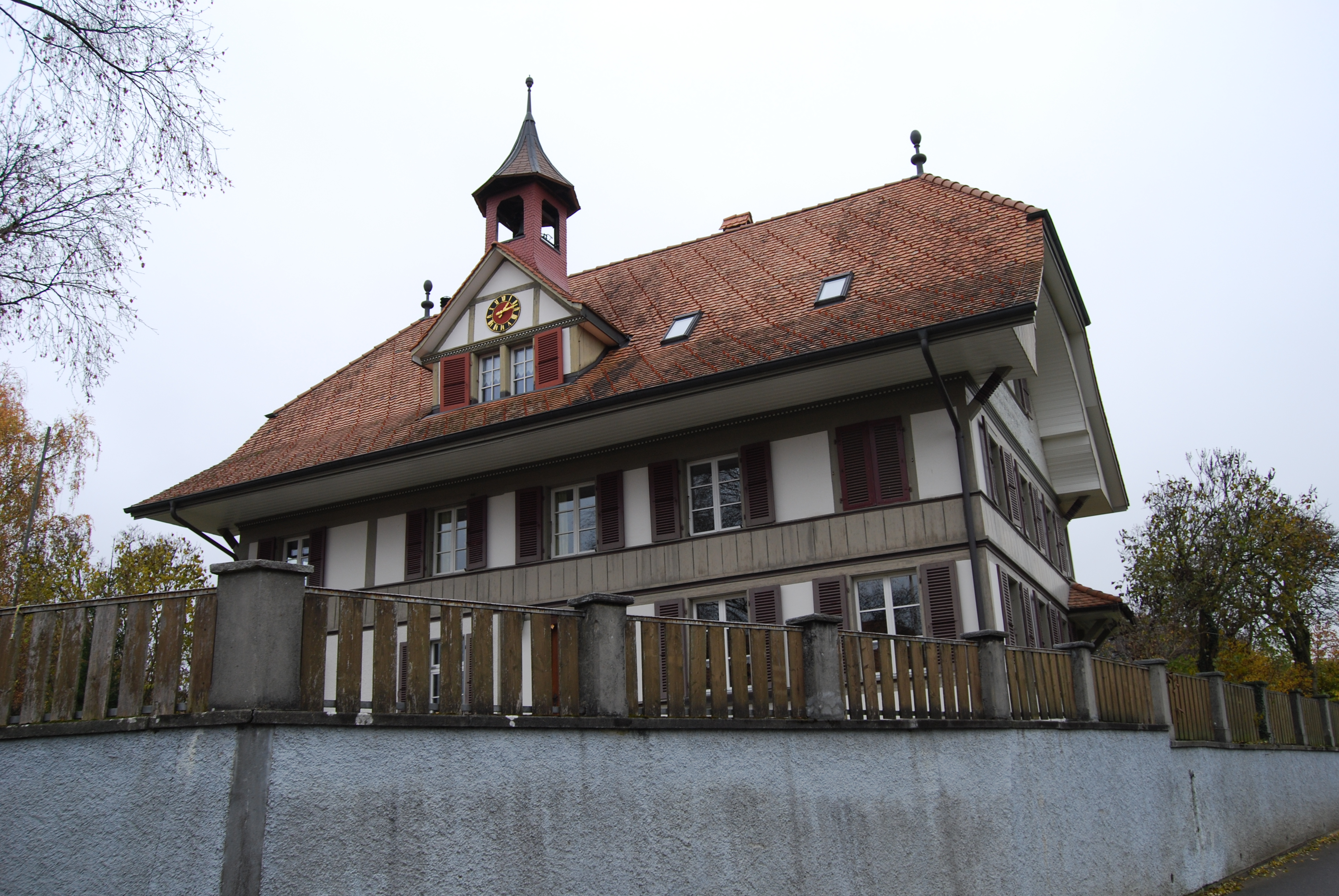 School building of Bangerten, canton of Bern, Switzerland